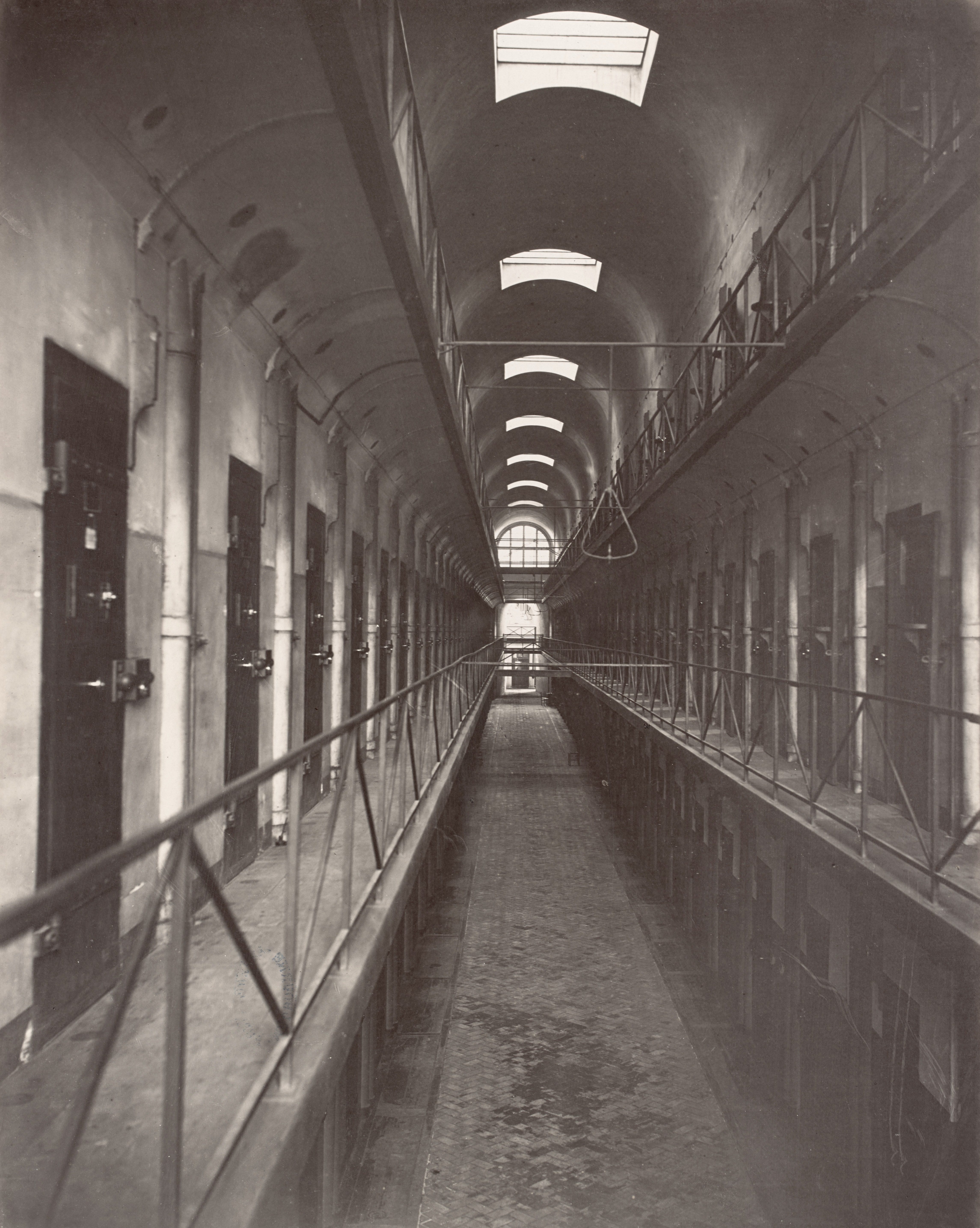 Maison D'Arrét Cellulaire (Mazas): Galerie Cellulaire - Chapelle: looking along row of cell doors with platform walkway in front of doors.